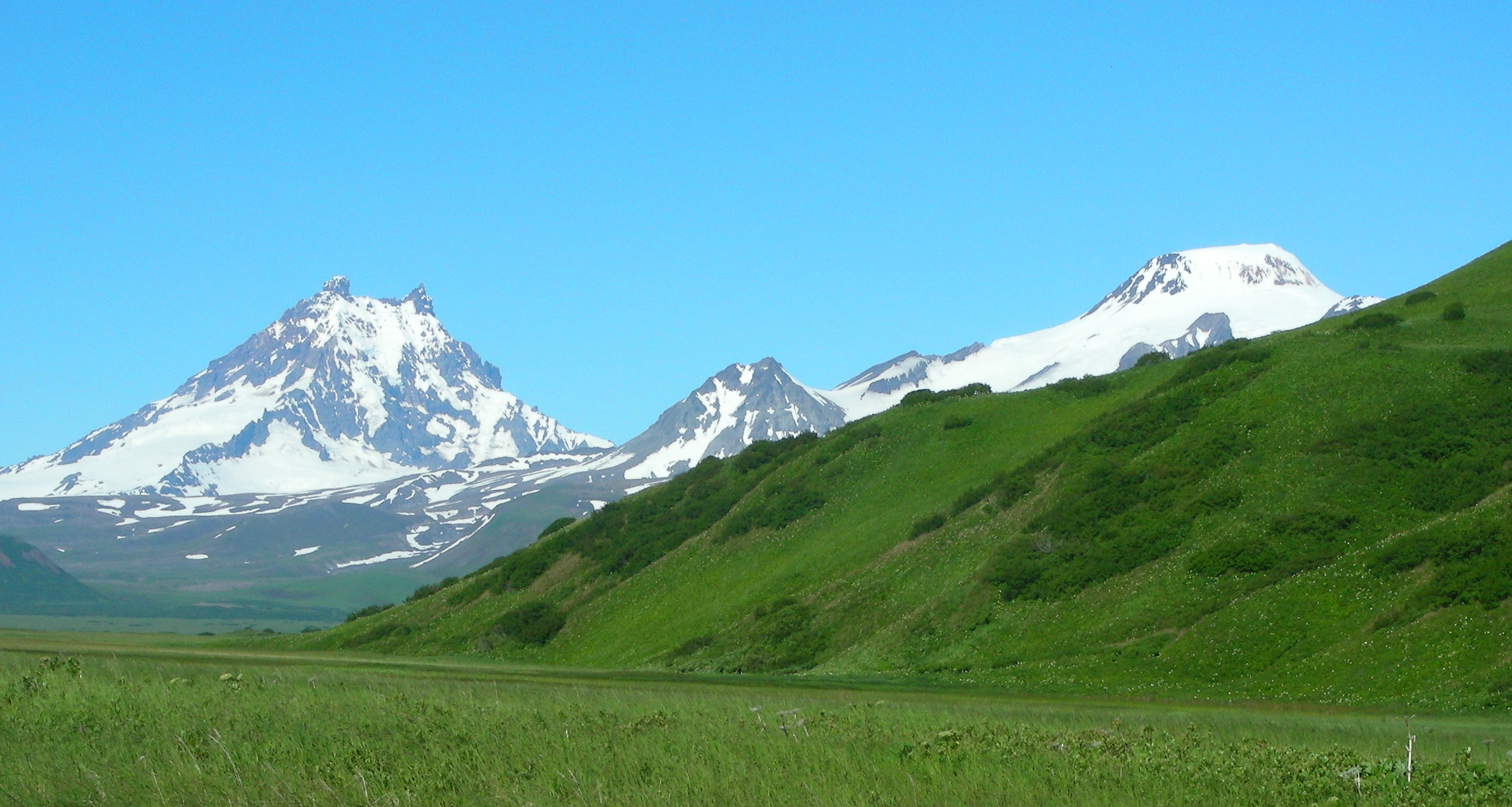 The False Pass area has two well-known snow-capped mountains. Roundtop volcano, now extinct, (5,866 feet, 1,787.96 m)is the nearest and dominates the western view from the village. Isanotski Peaks (7,536 feet, 2,296.97 m., locally called Ragged Jack) is also an extinct volcano and lies just south of Roundtop. This photo, taken south of False Pass near the base of the Ikatan Peninsula, shows both of the mountains.